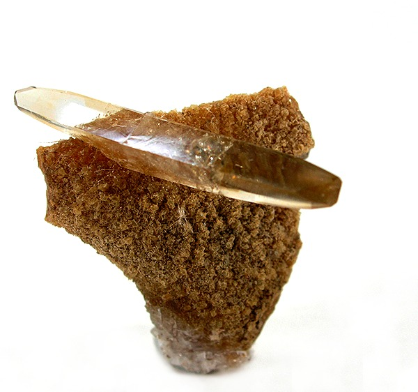 Baryte Locality: Elk Creek locality, Dalzell, Meade County, South Dakota, USA (Locality at ) Although it is nearly colorless, this barite is one of the finest Elk Creek thumbnails I have seen. It is 2.75 cm in length, doubly terminated, water clear, lustrous, and is aesthetically perched on micro calcite matrix. Wow! 2.75 x 2.4 x 1.4 cm